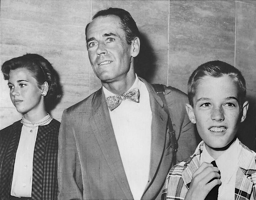 Jane Fonda & Henry Fonda & Peter Fonda, 1950s